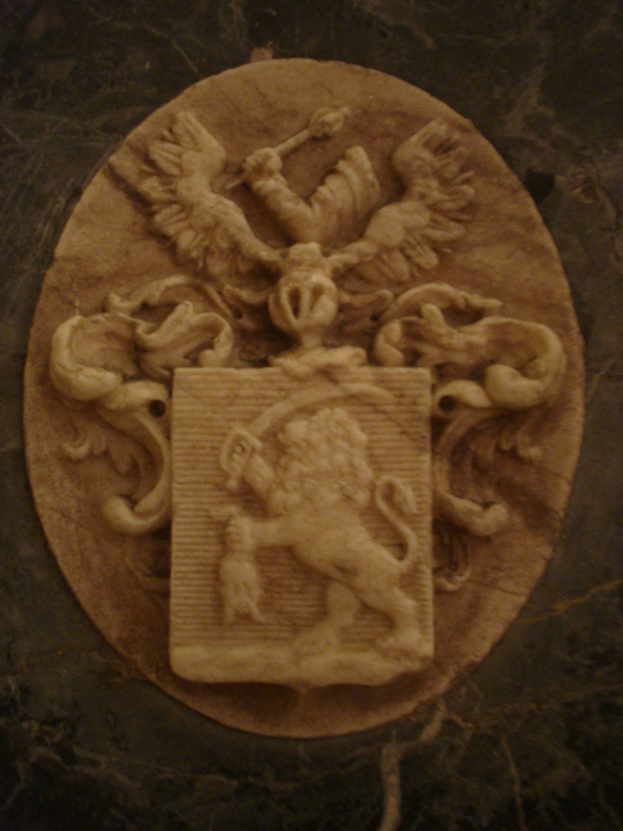 Coat of arms of the Inkey noble family in the Church of the Assumption of the Blessed Virgin Mary in Belica, Medjimurje County, Croatia